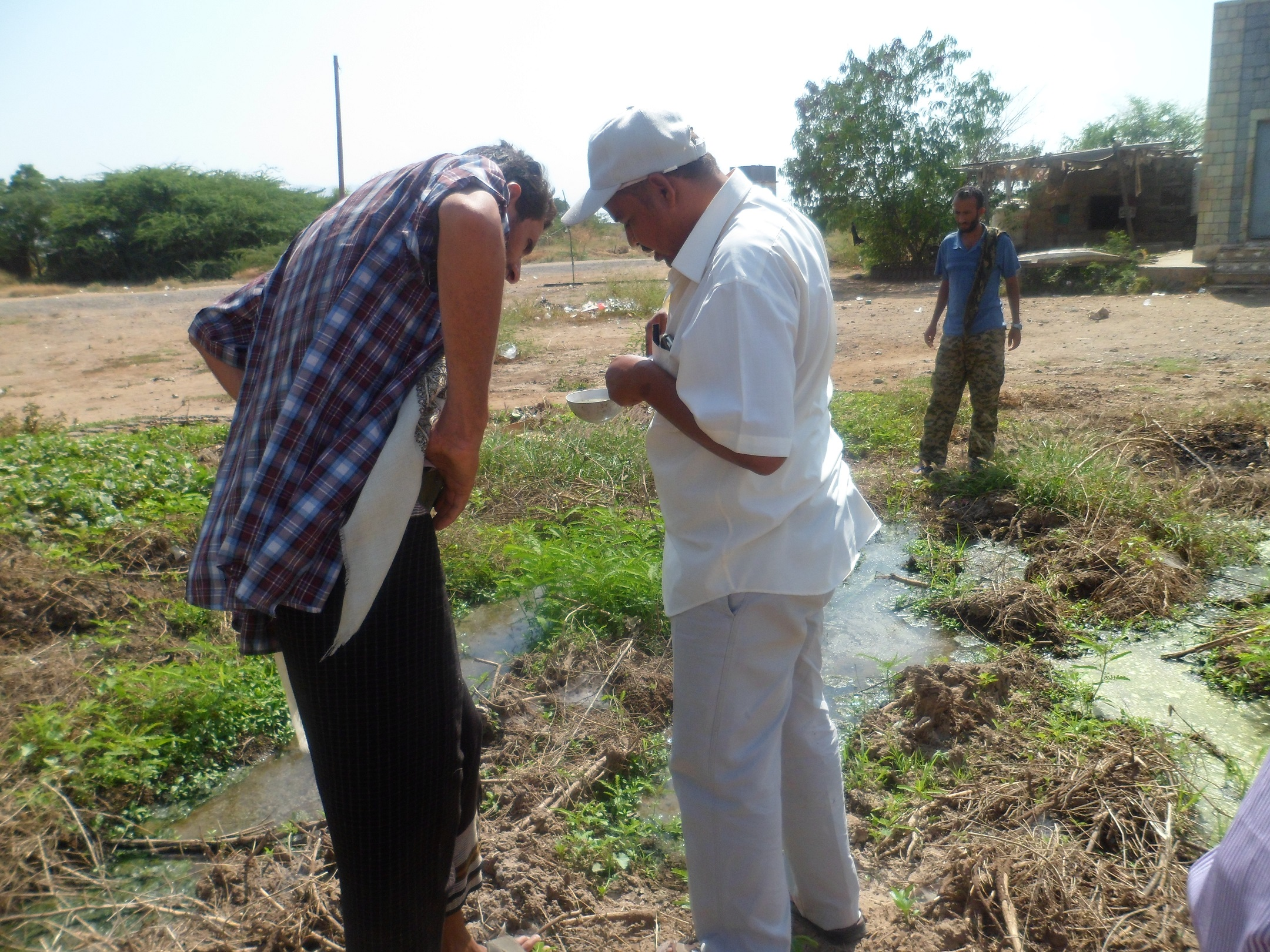 Entomologists examine samples from stagnant water during an outbreak investigation of dengue fever in Alhudaidah, Yemen. The dengue fever investigation was conducted by Yemen FETP residents in November 2014. Submitted by Aref AlAhmadi - Yemen.